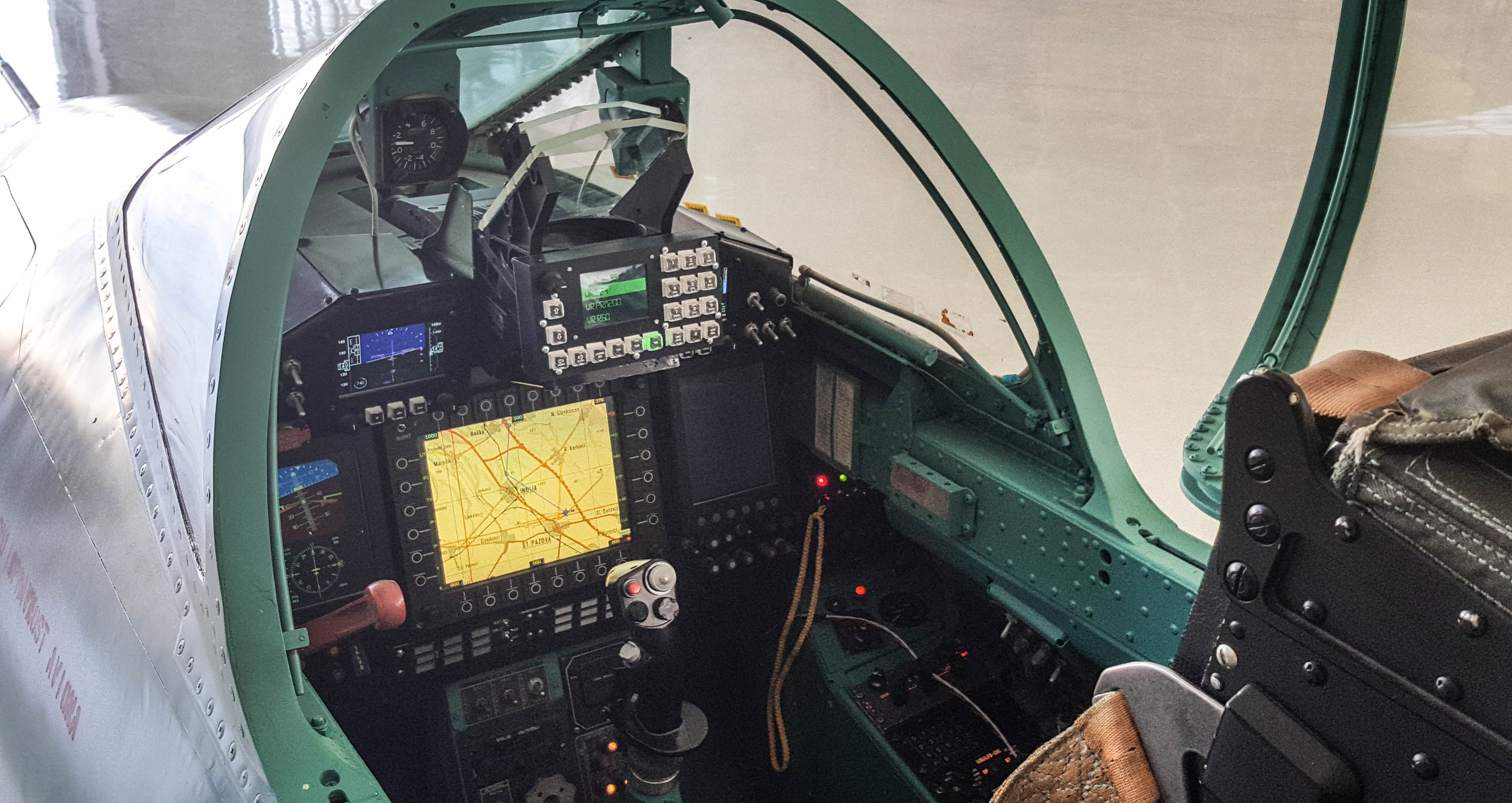 cockpit form orao 2.0 serbian light attack aircraft